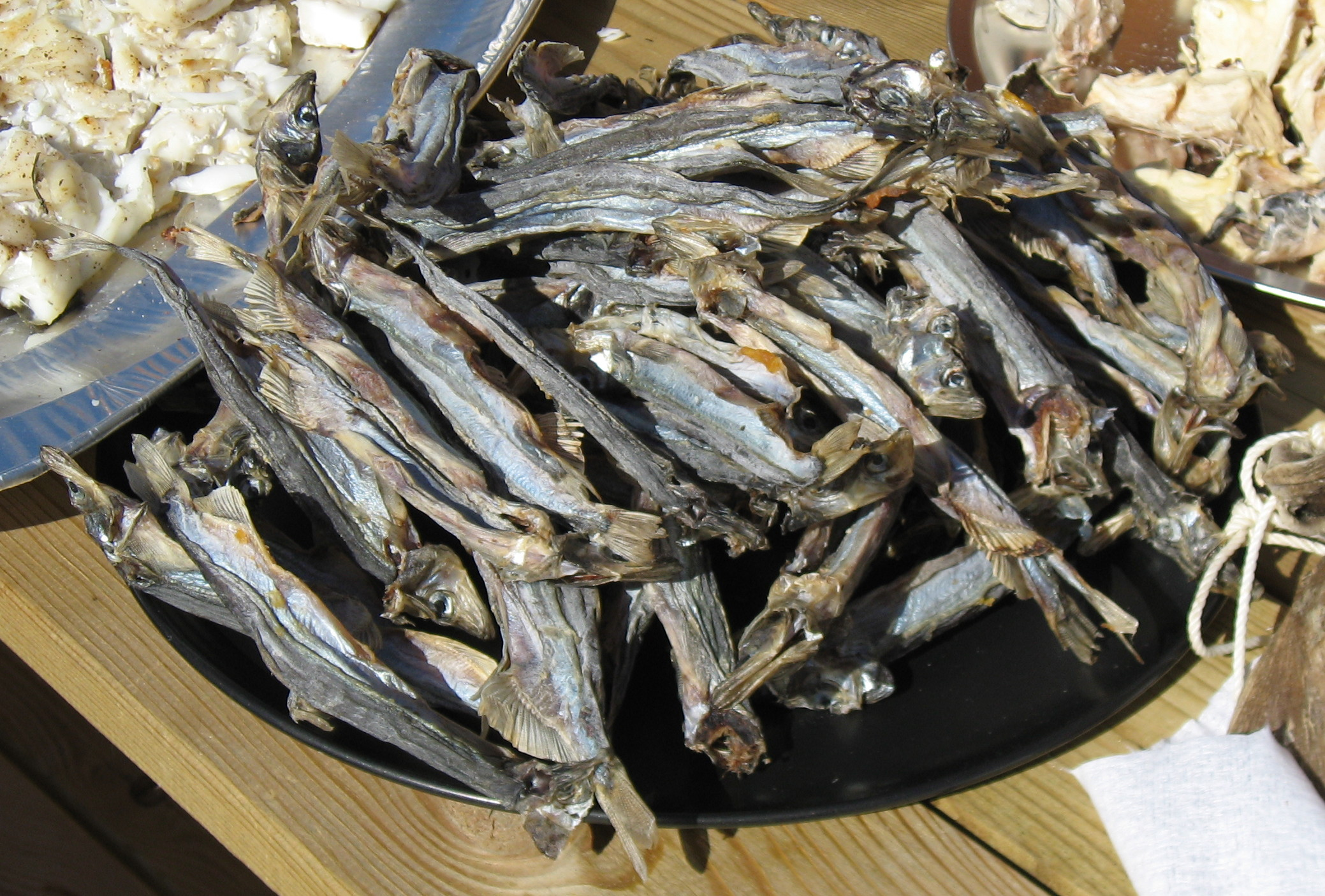 Dried Capelin (Mallotus villosus), or ammasat a traditional dish in Greenland. Here served at an open reception (kaffemik) as part of the social acitivities related to the Confirmation of a Greenlandic girl. The fish are dried on rocks exposed to sunlight.